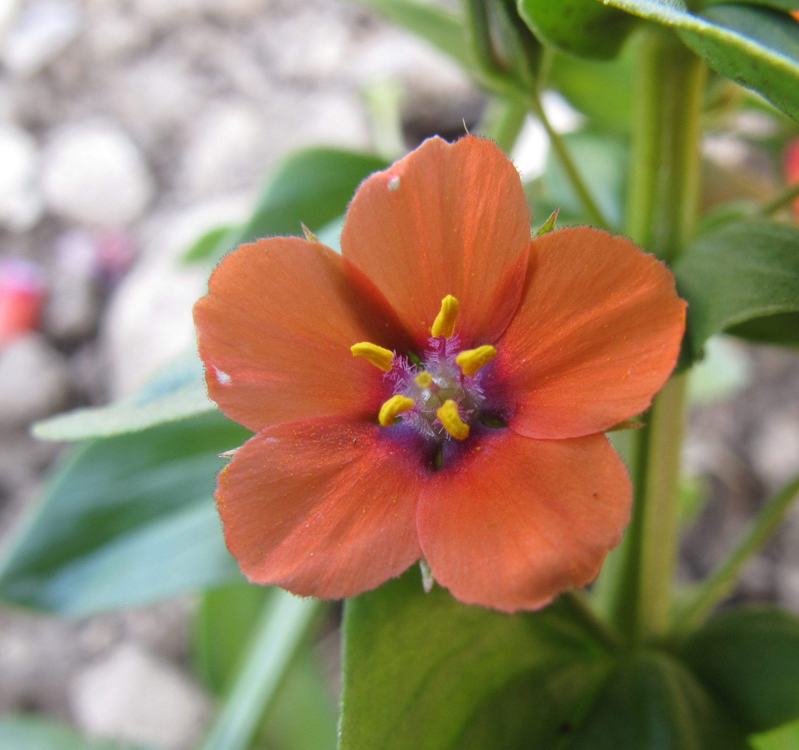 Flower of scarlet pimpernel (Anagallis arvensis) on the field near Čičovický kamýk natural monument, Prague-West District, Czech Republic.